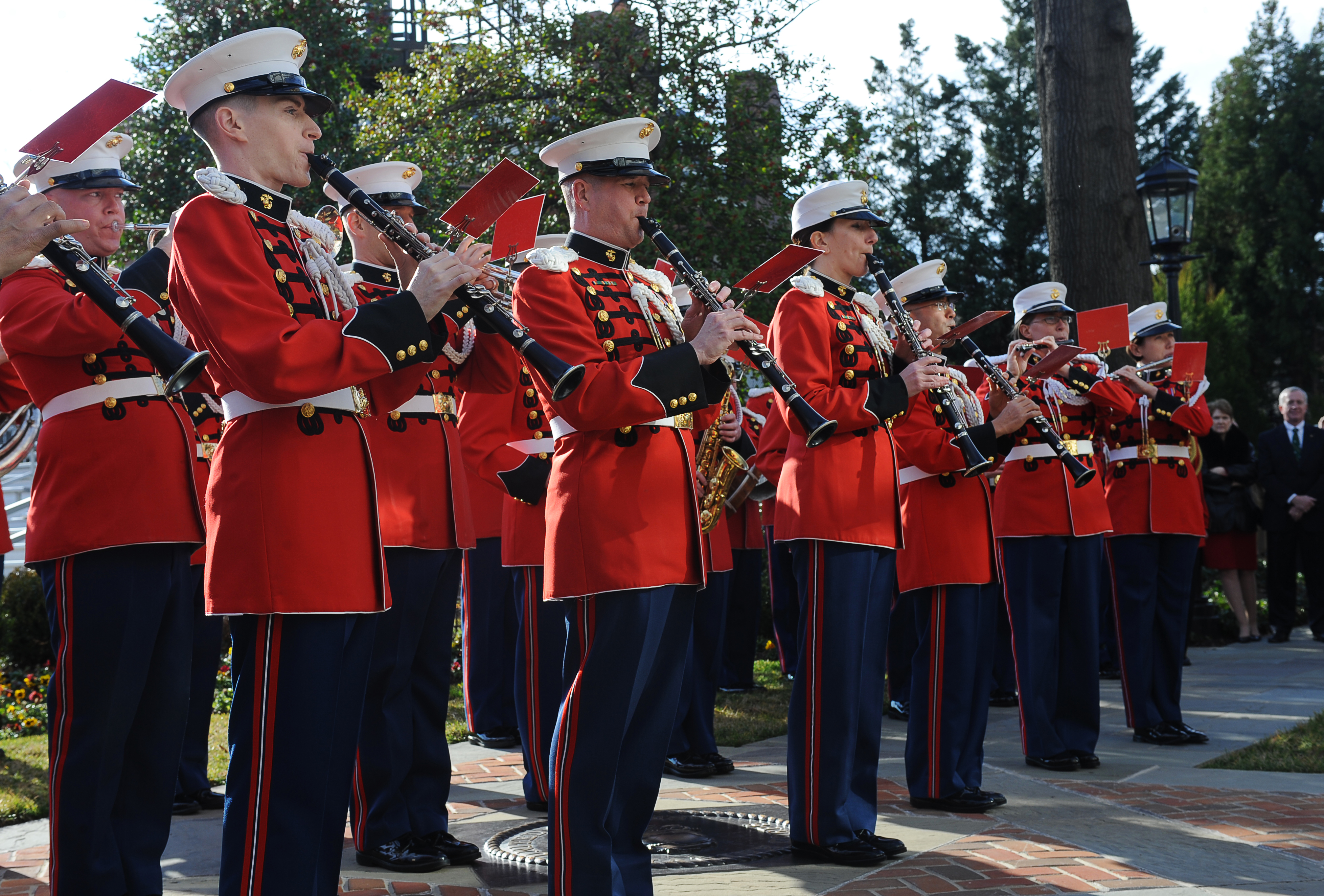 The U.S. Marine Band plays “Stars and Stripes Forever” during the annual New Year’s Day serenade in front of the Home of the Commandants at Marine Barracks Washington Jan. 1. It was the band’s first opportunity to uphold the age-old tradition and serenade Gen. James F. Amos, and his wife in front of their home. Last year, Amos’ first year as commandant, the ceremony was held in front of Crawford Hall here due to renovations to the Home of the Commandants. (Official Marine Corps Photo by Lance Cpl. Mondo Lescaud/Released)